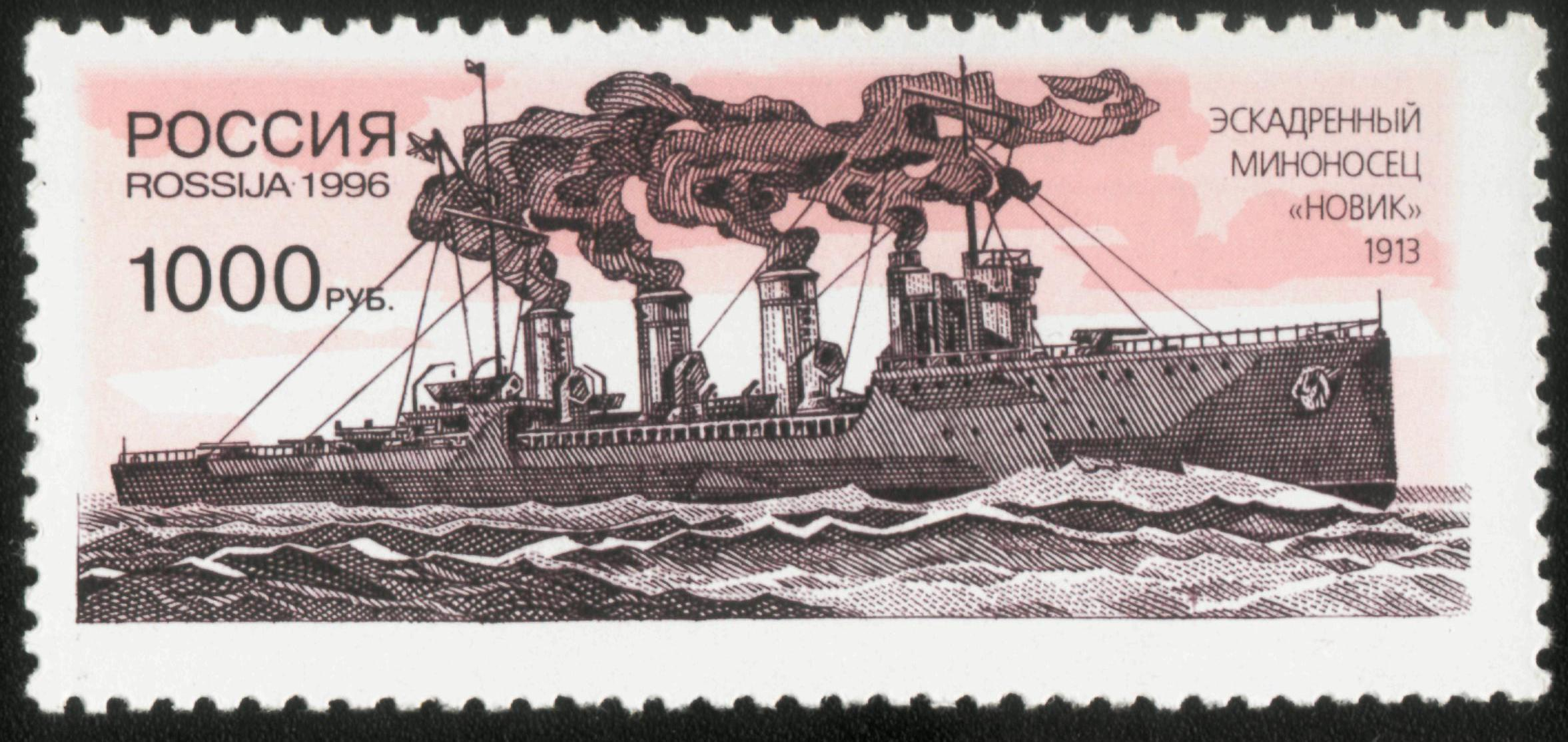 Stamp of Russia "Novik". 1996, 1000 rubles, CPA #?